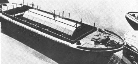 Landing Barge, Oiler (LBO) and Landing Barge, Water (LBW). Small barges equipped to refuel or supply minor landing craft in a beaching area on D-Day. This is CCF-245, previously named Egham, and later as LBO 58 used in the 37th LB Flotilla on Juno Beach on D-Day.[1]